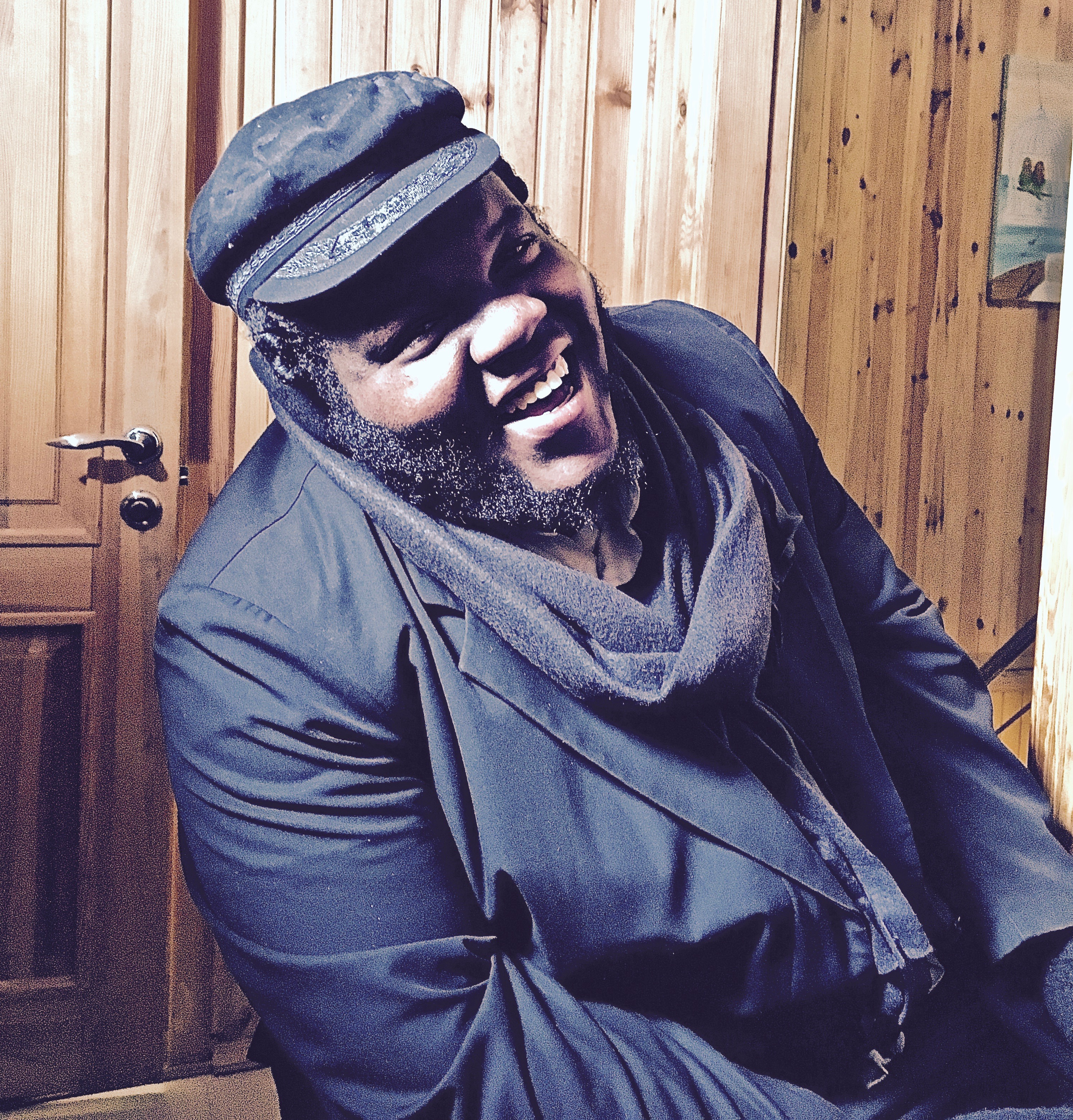 Nissim Black in Uman, Ukraine